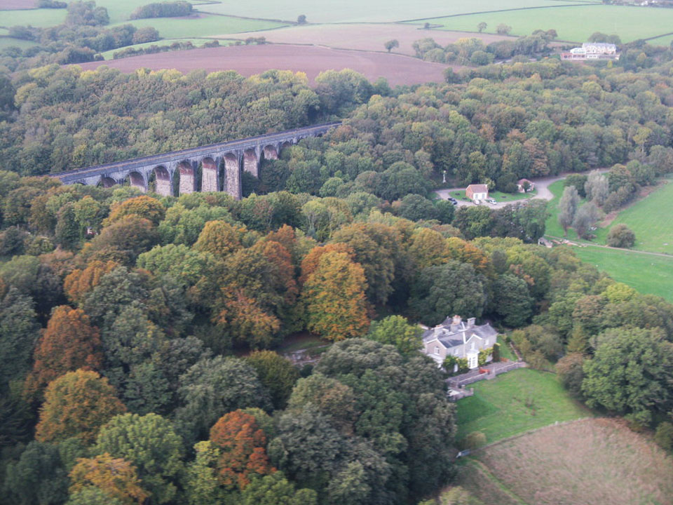 Aerial photo of Porthkerry Park and Portkerry Viaduct, near Barry, South Wales, with Viaduct Wood in the foreground and Knockmandown Wood in the background.